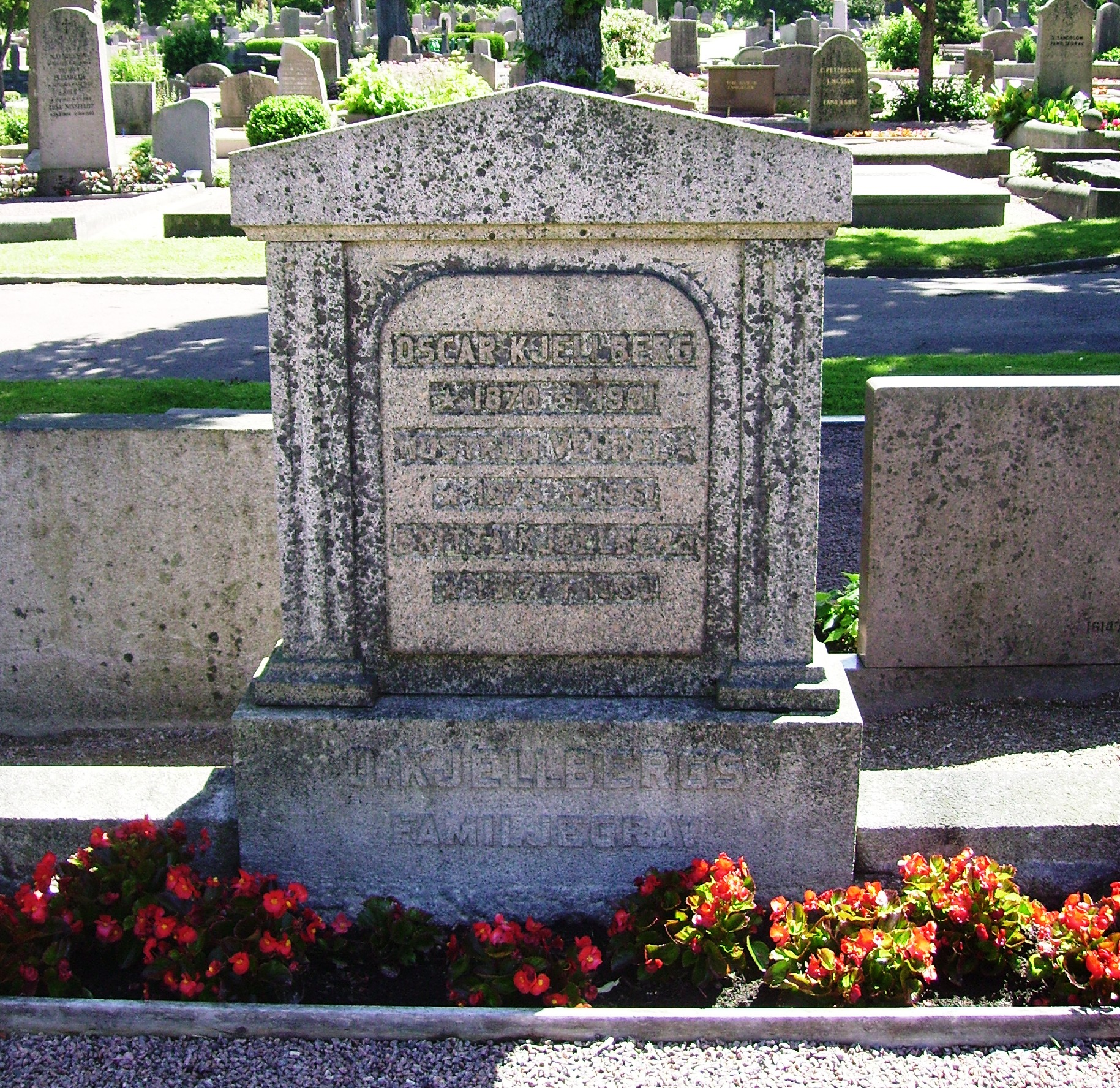 Picture of Oscar Kjellberg's grave at Östra kyrkogården in Gothenburg